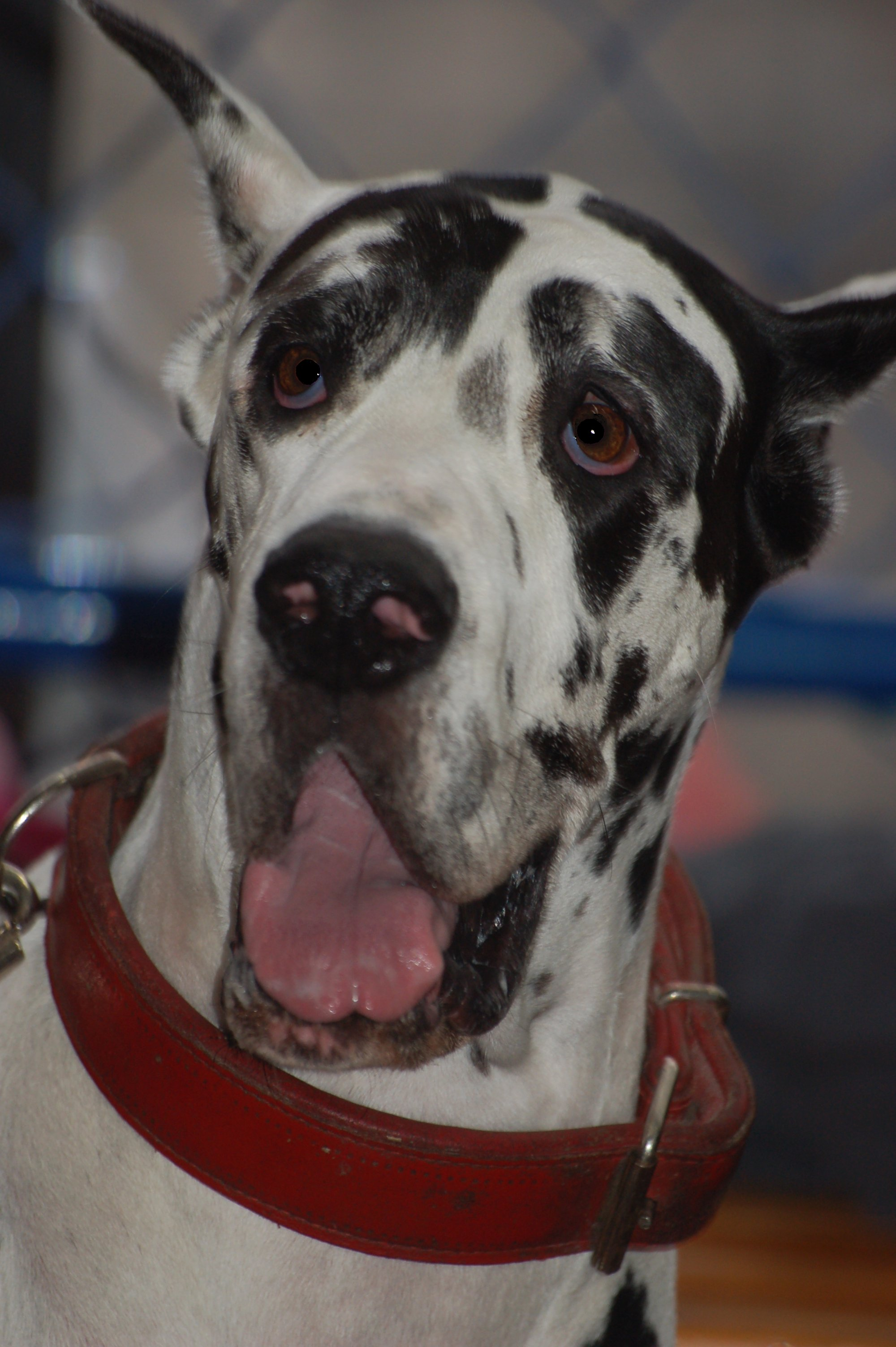 Great Dane during dogs show in Katowice, Poland